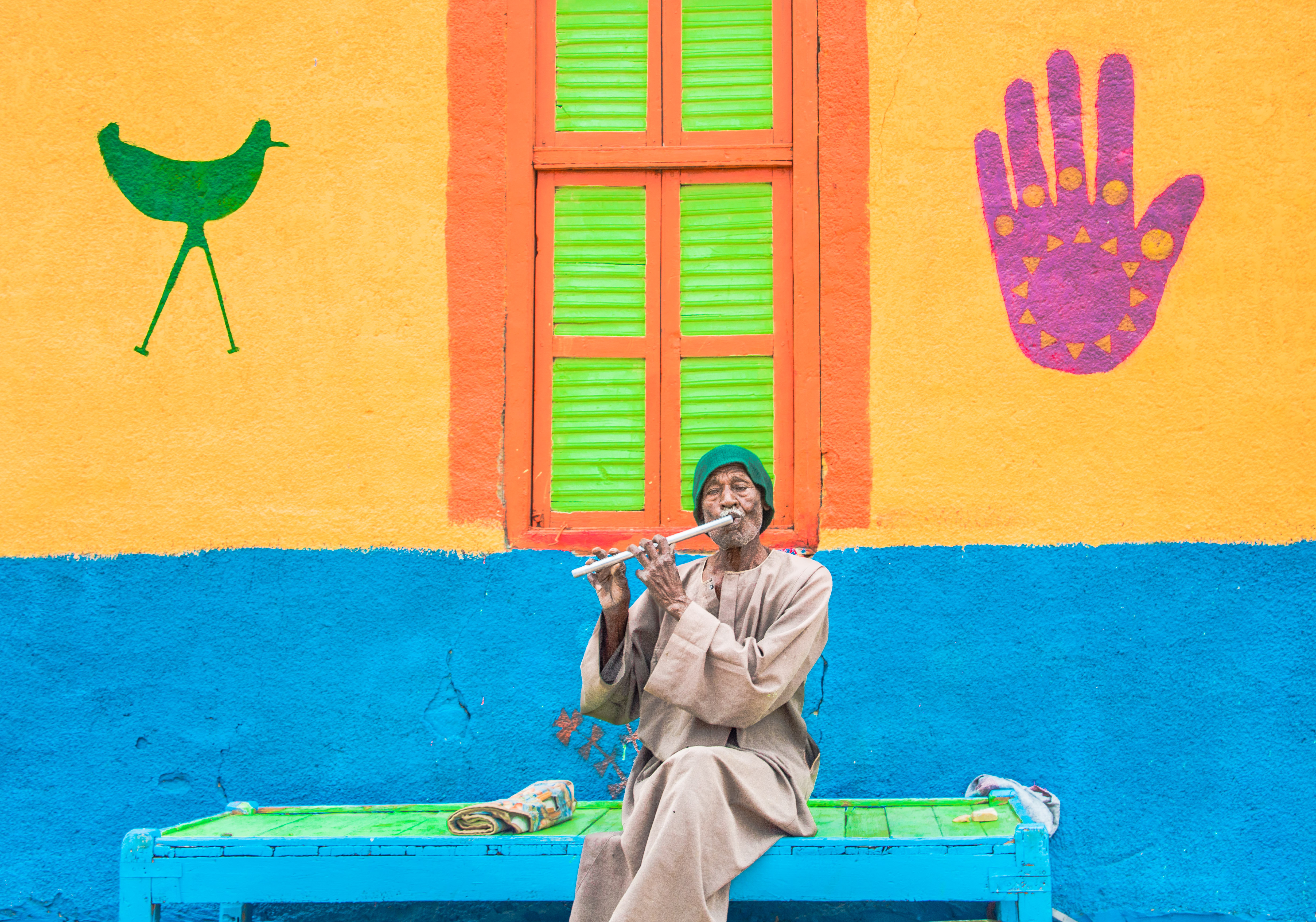 Egyptian Nubian is playing a piece of music on the banks of the Nile River by using the flute